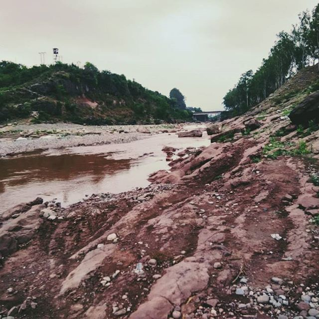 The Post-rain chromes of the Tawi